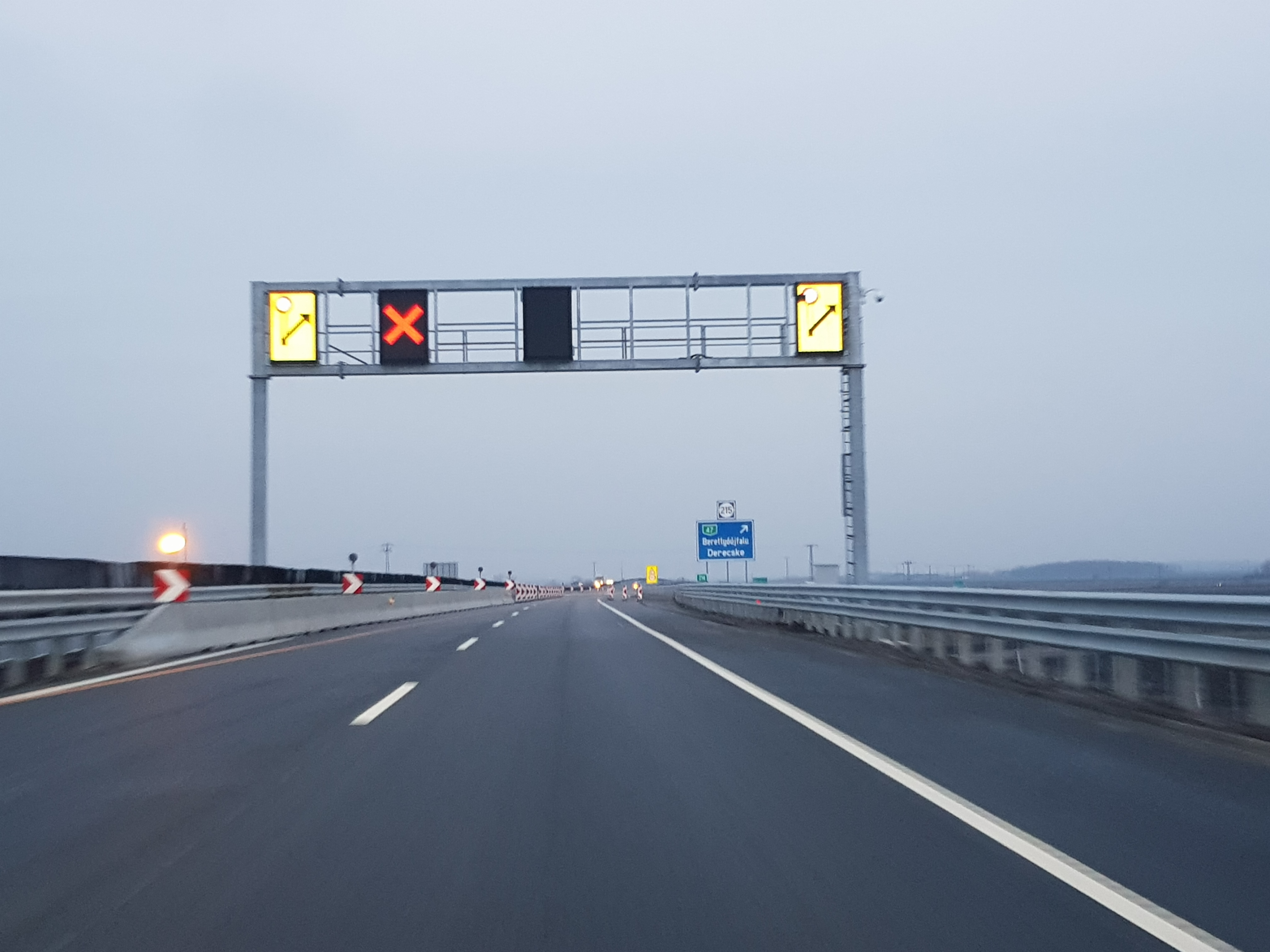 Motorway M4 in Hungary, near Derecske and Berettyóújfalu, towards the Romanian border